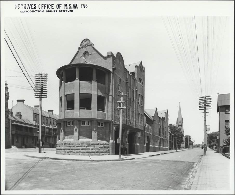 Darlinghurst Fire Station Dated: c.1912 Digital ID: 4481_a026_000990 Rights: No known copyright We'd love to hear from you if you use our photos. Many other photos in our collection are available to view and browse on our website using Photo Investigator.